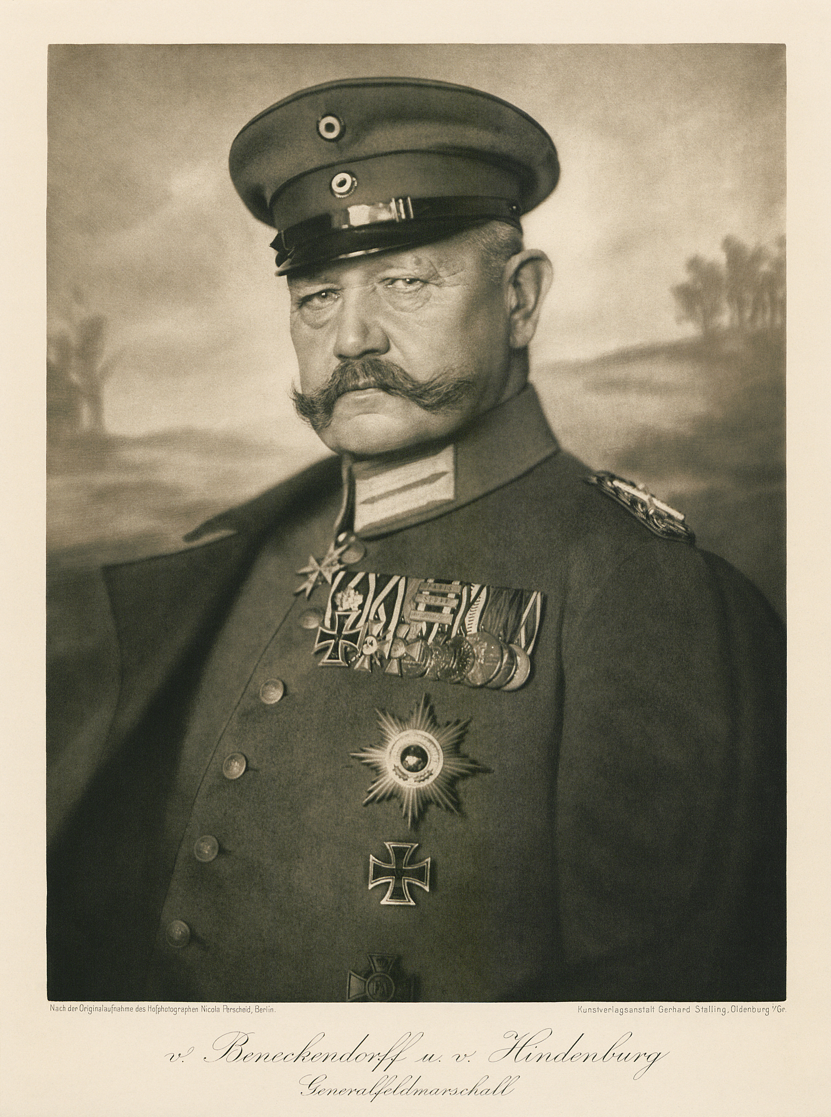 Reproduction (likely a photogravure) of a 1914 photograph of Paul von Hindenburg.